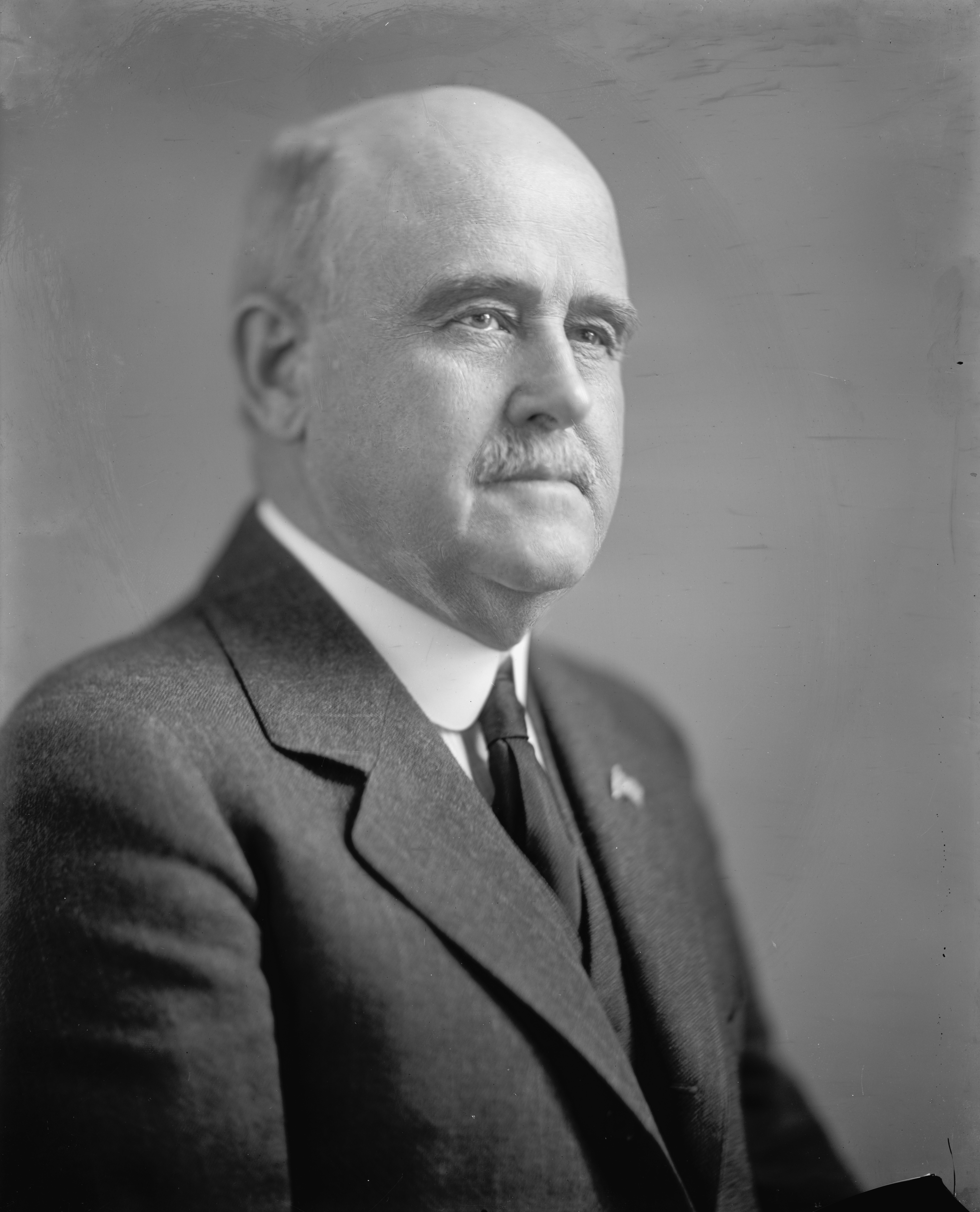 Title: McKINLEY, WILLIAM B. HONORABLE Abstract/medium: 1 negative : glass ; 8 x 10 in. or smaller